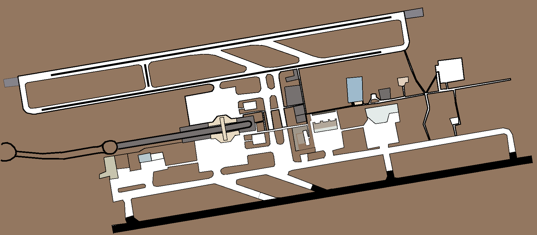 Template:Queen Alia AirPort User:Tarawneh/rami